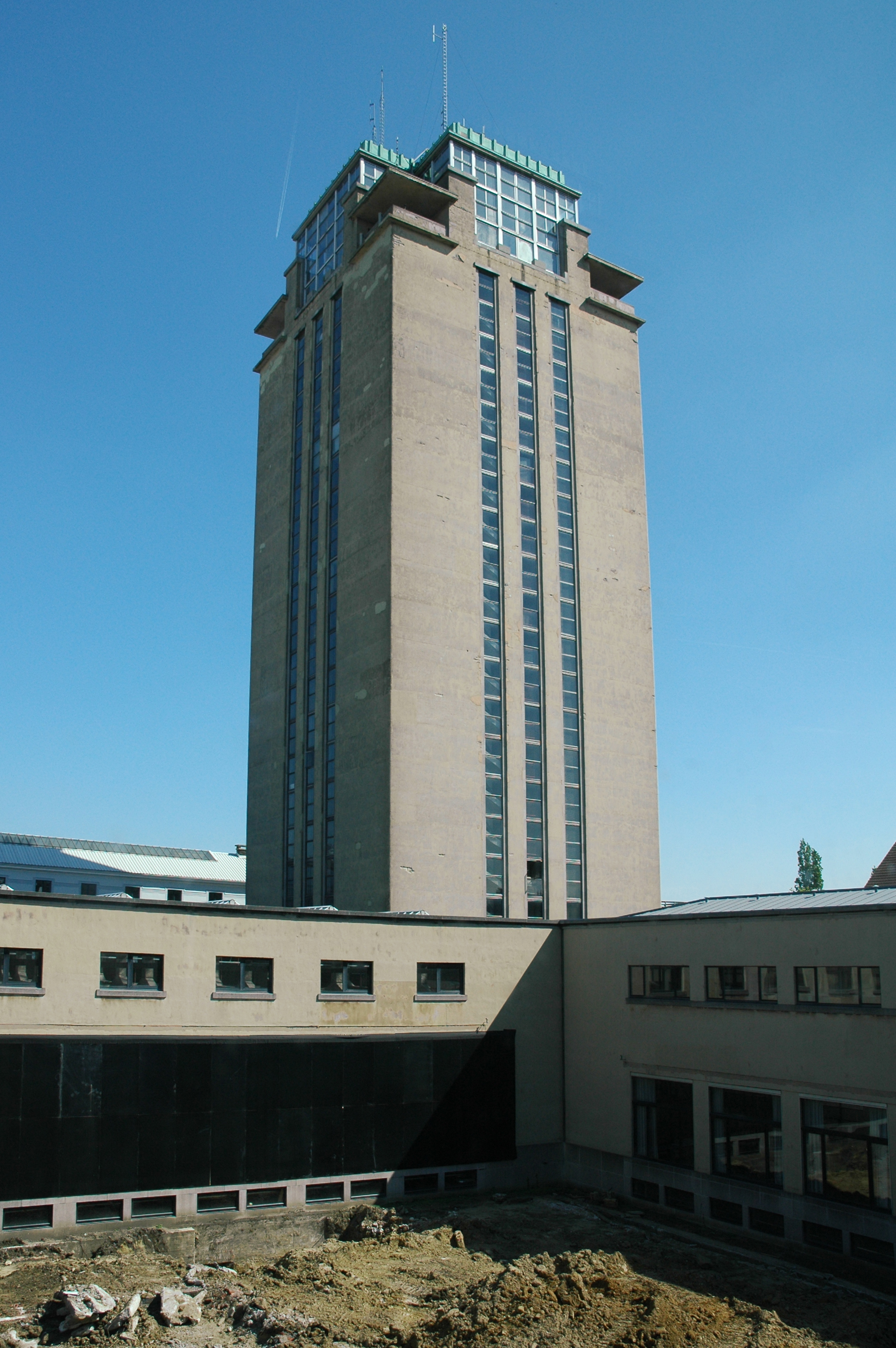 The Boekentoren (Booktower) of the Ghent University Library in Ghent, Belgium. The courtyard between the Boekentoren and the Blandijn (from where the picture is taken) is under construction; an underground book depot is being built.